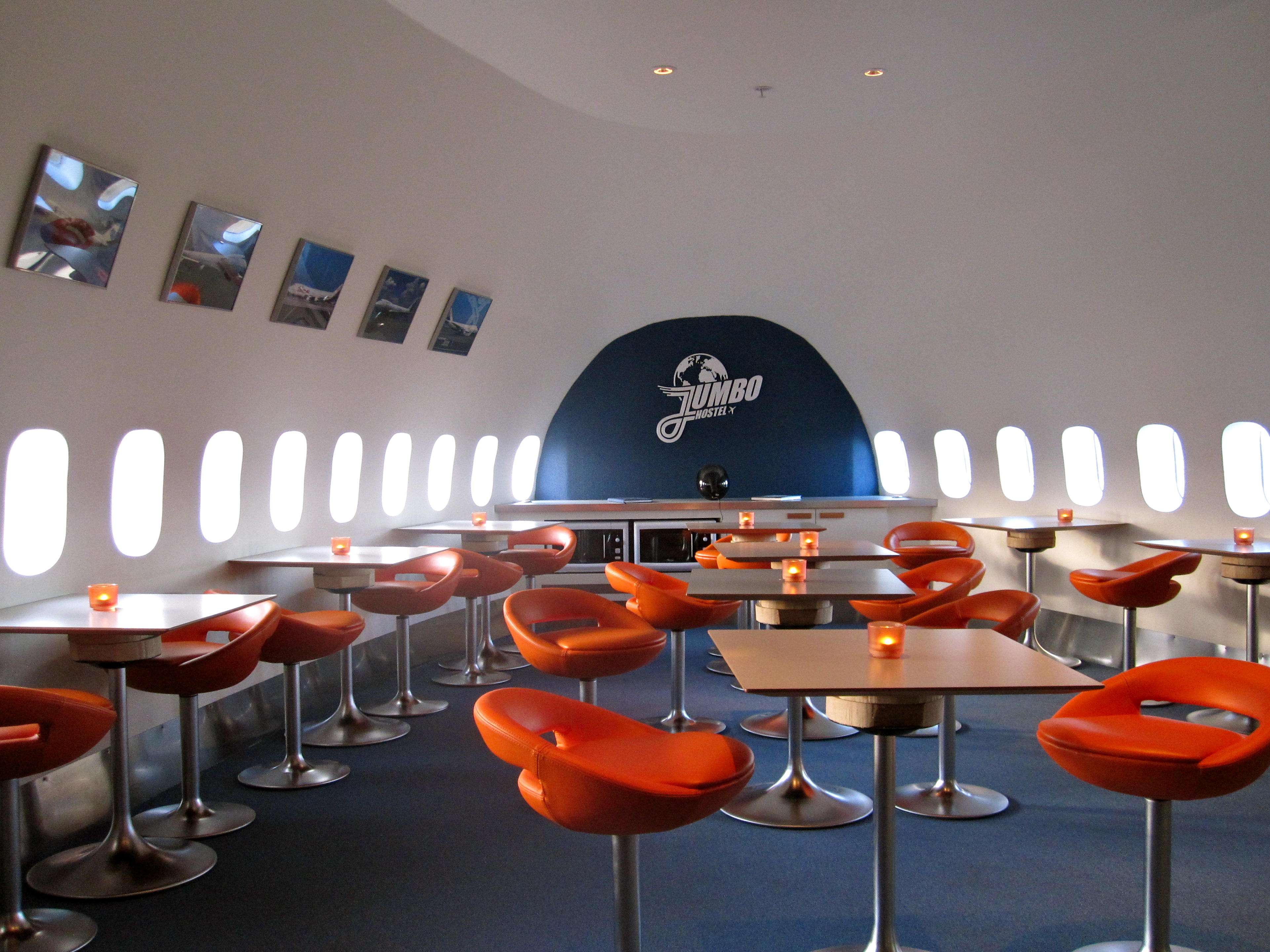 Inside view of the Jumbo Hostel at Arlanda Airport near Stockholm, Sweden